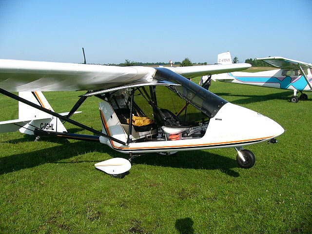 Freedom Lite Skywatch SS-11 at the Alexandria, Ontario, Canada Fly-in